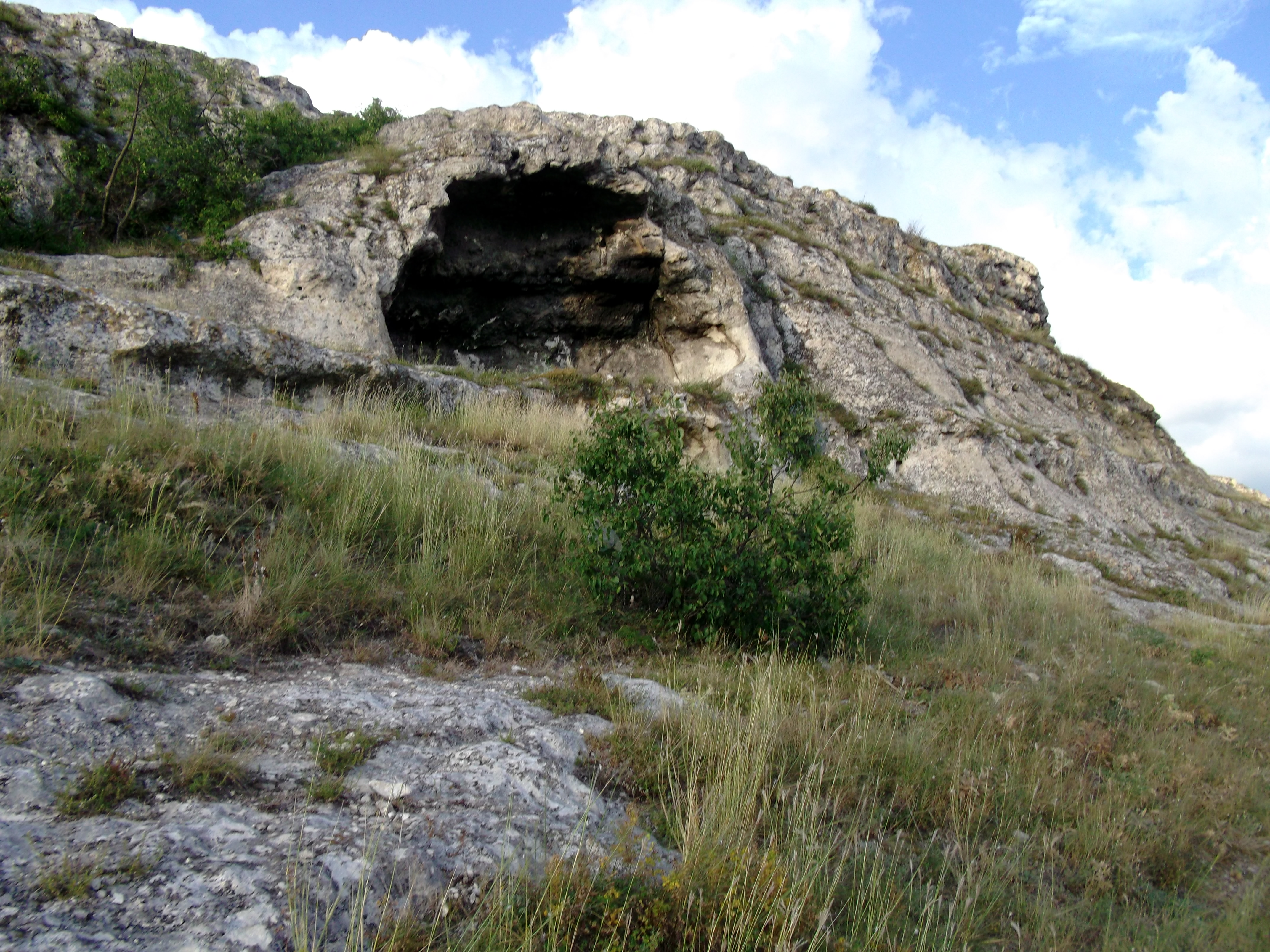 The grotto Çuqurça-2 (Murun Kır mountain)